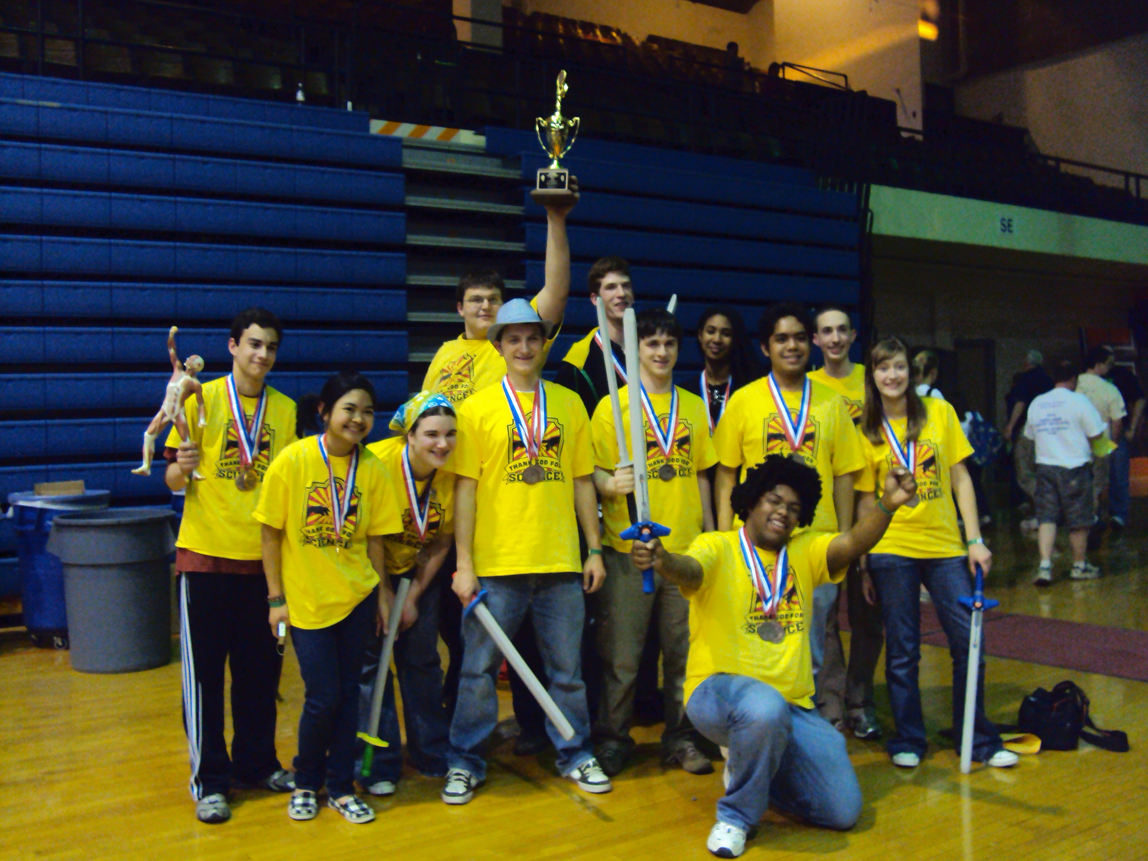 The Benet Academy Science Alliance team after winning second place in its division in the Illinois Science Olympiad.